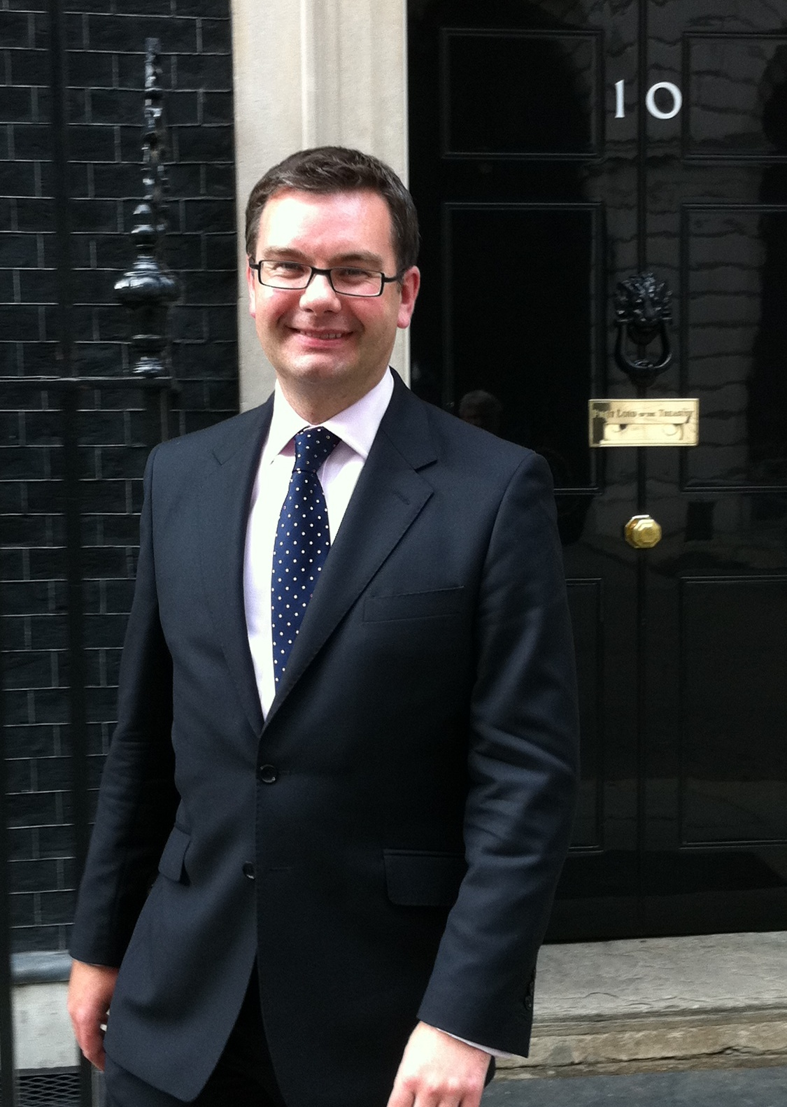 This is a portrait photograph of Iain Stewart, the MP for Milton Keynes South.